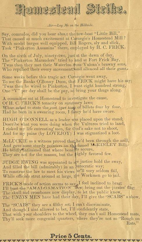 Pro-Union pamphlet with lyrics to a song in support of workers in the Homestead Strike of 1892. This photograph has the edges clipped off. The decorative border at the bottom of the picture is actually part of a rectangular border that surrounds the words on all sides, with a wide margin to the edge of the paper, as shown in another picture on the same eBay web page. Store Web page states: "Pamphlet measures 6 7/8 by 10 3/4 inches, and it cost 5 cents in 1892". This pamphlet which is encased in a wooden frame was donated in 2009 by the previous owners, Ronald and Irene Niziol, to the Archive Collections of the Rivers of Steel National Heritage Area, located in Homestead, PA. This historical artifact may be viewed at their location in the Bost Building in Homestead.